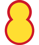 8th Infantry Division (South Korea)